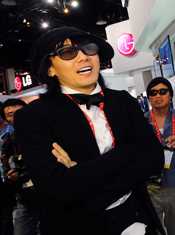 Kim Jang-hoon at the Consumer Electronics Show (CES) 2012 in Las Vegas, Nevada, in January 2012